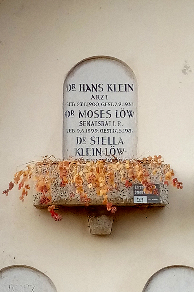 Urn grave of the politician Stella Klein-Löw (1904–1986) and her husbands Hans Klein and Moses Löw. Feuerhalle Simmering, Vienna